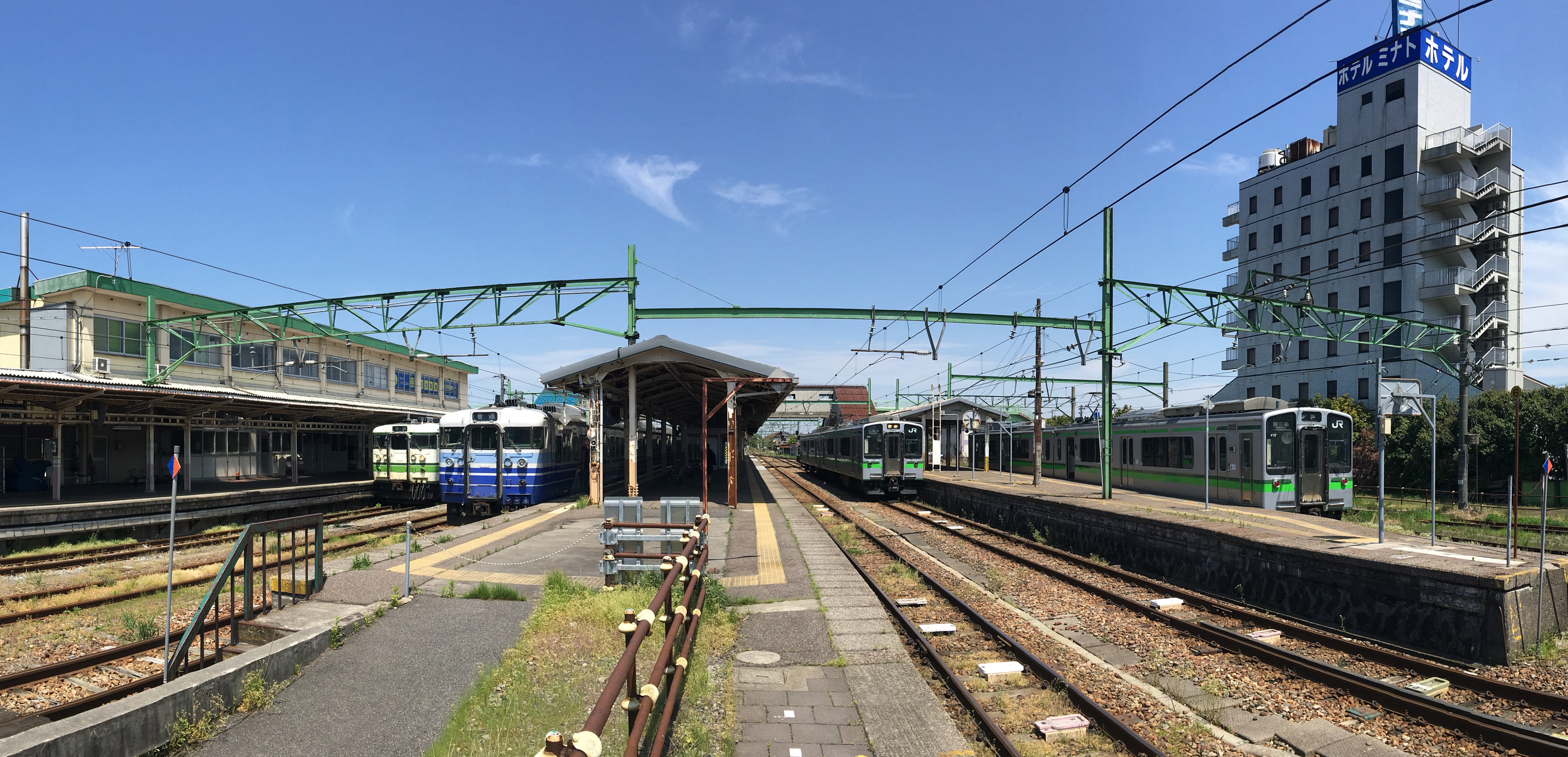 JR East 115 and E127 series EMUs at Yoshida Station in Niigata Prefecture, Japan